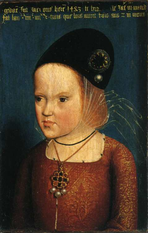 The Archduchess Margaret of Austria (1480-1530) was a Habsburg princess, the daughter of Maximilian I, Holy Roman Emperor and Mary of Burgundy. In 1483, she was betrothed to the Dauphin of France, later King Charles VIII of France, bringing with her a dowry of Franche-Comté and Artois, and was transferred to the guardianship of King Louis XI of France (see Treaty of Arras (1482)). After Charles renounced the treaty and married Anne of Brittany, Margaret was returned to her father in 1493. In 1497, she was married to Juan, Prince of Asturias, Infante of Spain (1478–1497), the son and heir of King Ferdinand II of Aragon and Queen Isabella I of Castile, but he died after only six months. Juan left her pregnant, but she later gave birth to a stillborn child. In 1501, she married Philibert II, Duke of Savoy (1480–1504), who died three years later. This marriage had been childless as well. She was appointed for the first time as governor of the Habsburg Netherlands (1507–1515) and guardian of her young nephew Charles (the future Charles V, Holy Roman Emperor).